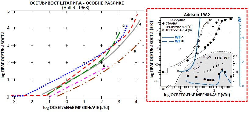 ПРОМЕНА ОСЕТЉИВОСТИ ШТАПИЋА СА ОСОБОМ И СВЕТЛОСНИМ СИГНАЛОМ